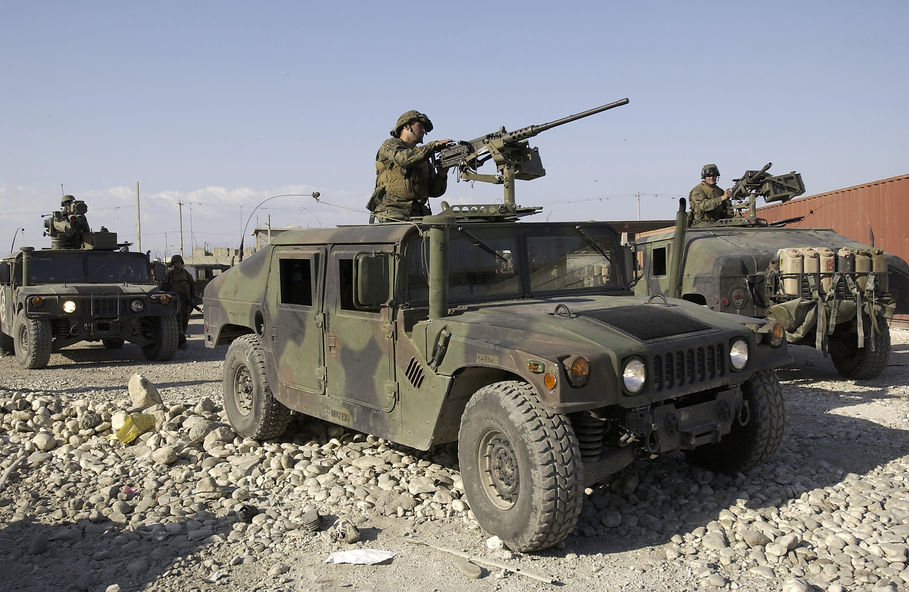 U.S. Marines from the 3rd Battalion, 8th Marine Regiment, Camp Lejeune, N.C., are on patrol at the port in Port-au-Prince, Haiti, on March 6, 2004. U.S. troops are deploying to Haiti at the request of the new President of Haiti to help promote the constitutional political process, to create conditions for the arrival of the U.N. multinational force, facilitate humanitarian assistance and secure key sites in the Haitian capital of Port-au-Prince.